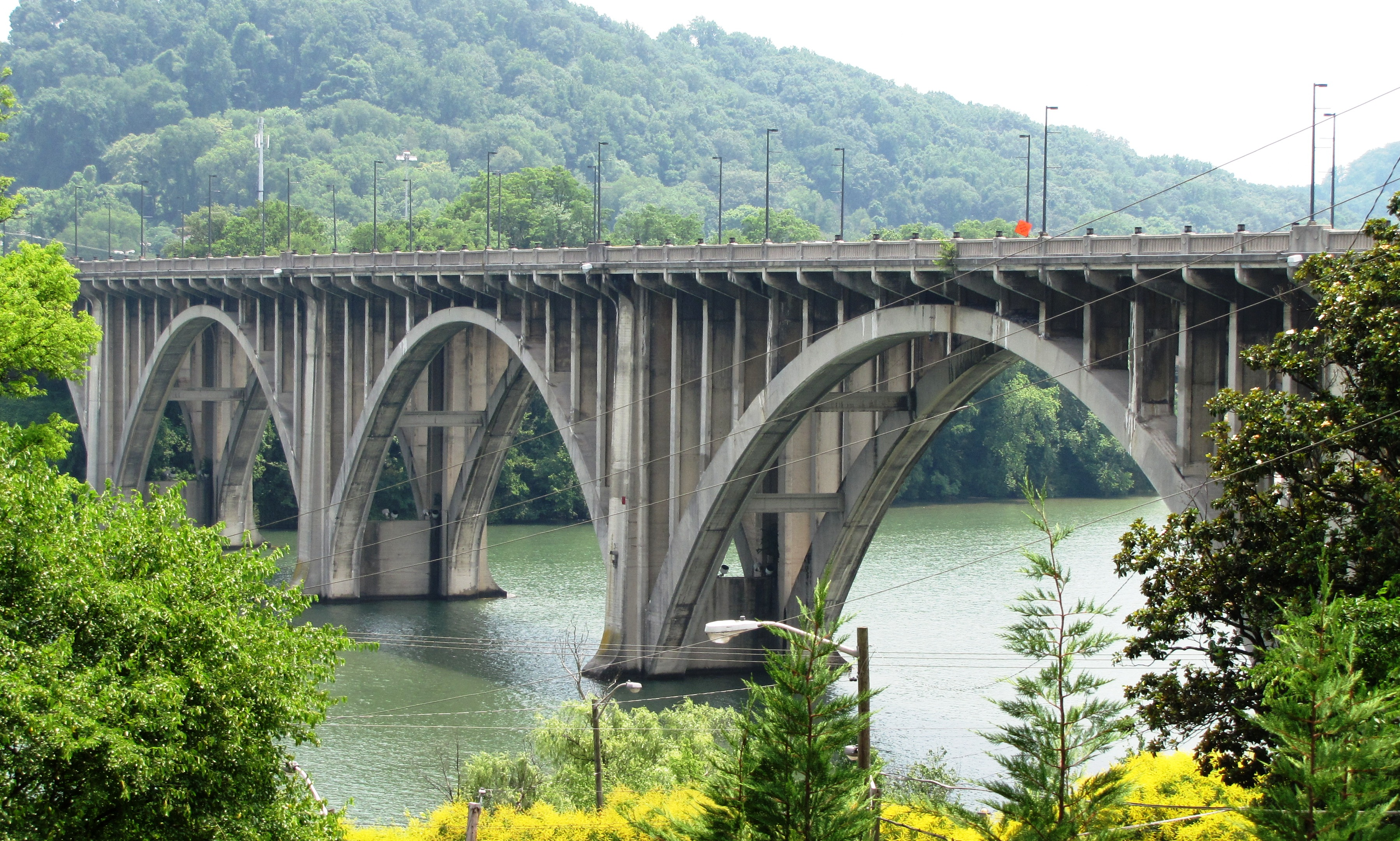 The Henley Street Bridge, spanning the Tennessee River in Knoxville, Tennessee, USA. This bridge, which carries U.S. Route 441, was designed by the Marsh Engineering Company, and completed in 1931.